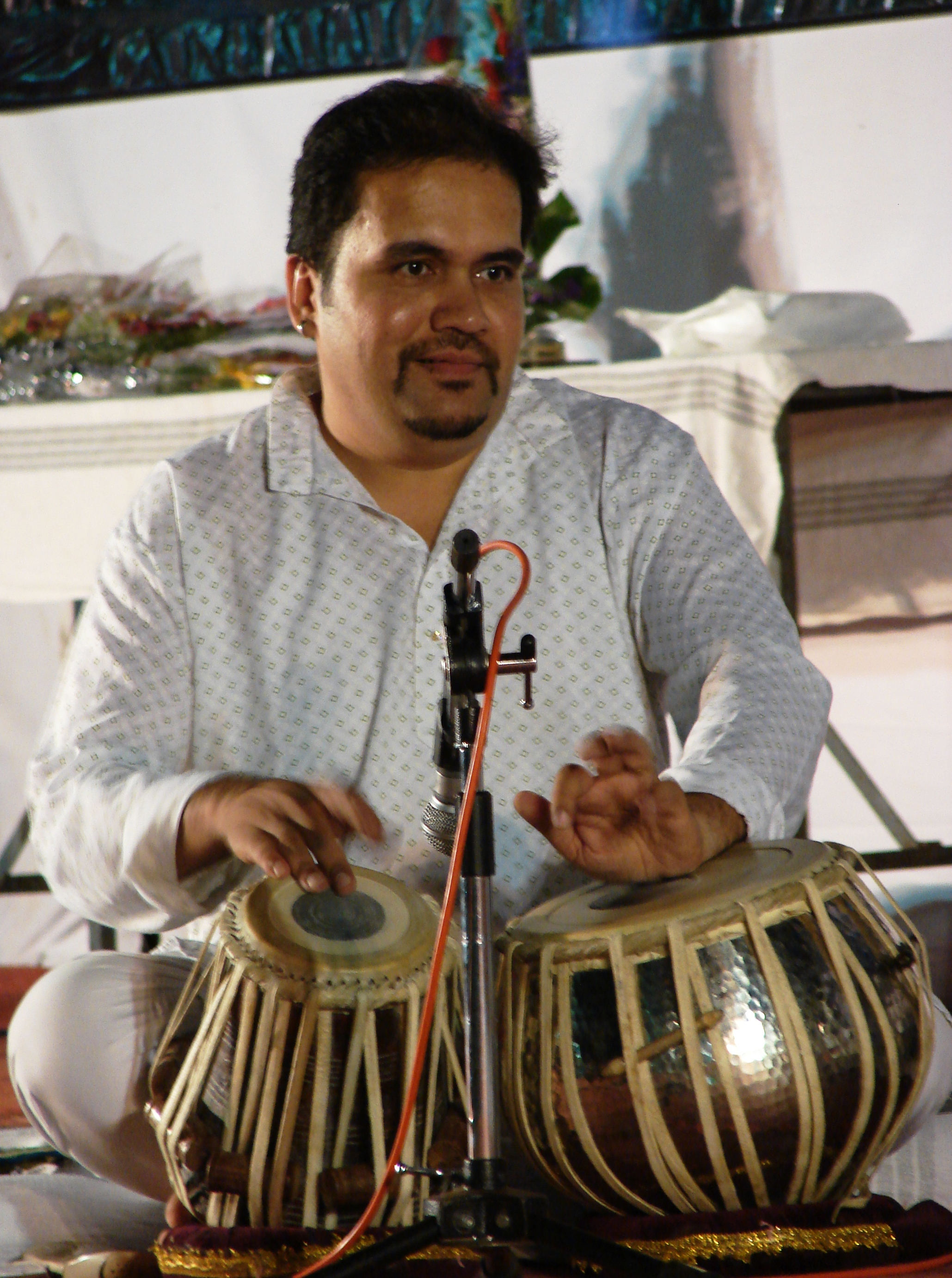 This is a photo of famous Tabla Artist Nikhil Phatak